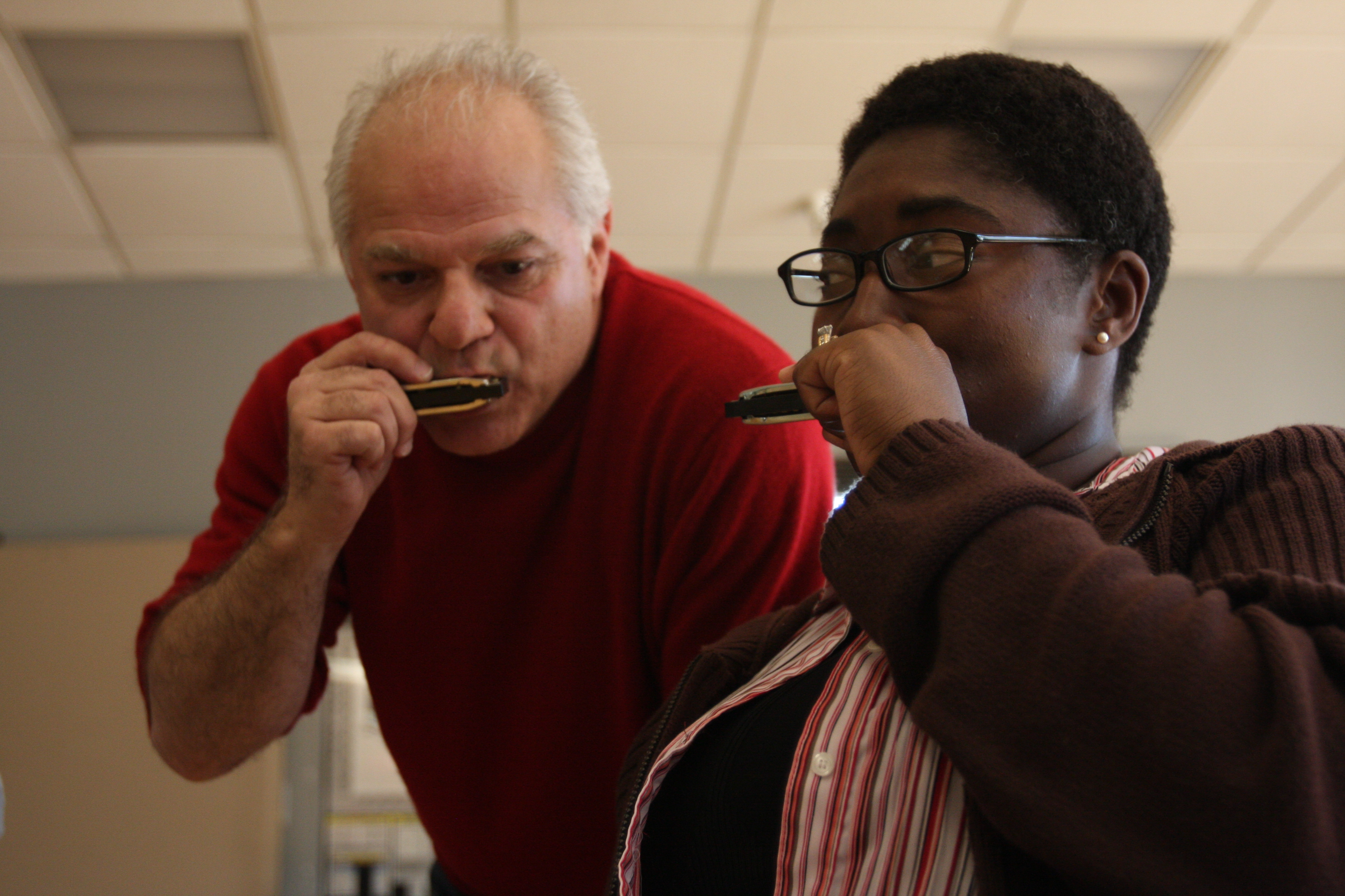 Rand De Mattei, a music instructor with Blues in the Schools, gets in tune with Petty Officer 2nd Class Tyreen S. McRae, a participant in neurologic music therapy, at Naval Medical Center San Diego Feb. 28. Neurologic music therapy helps Wounded Warriors recover.